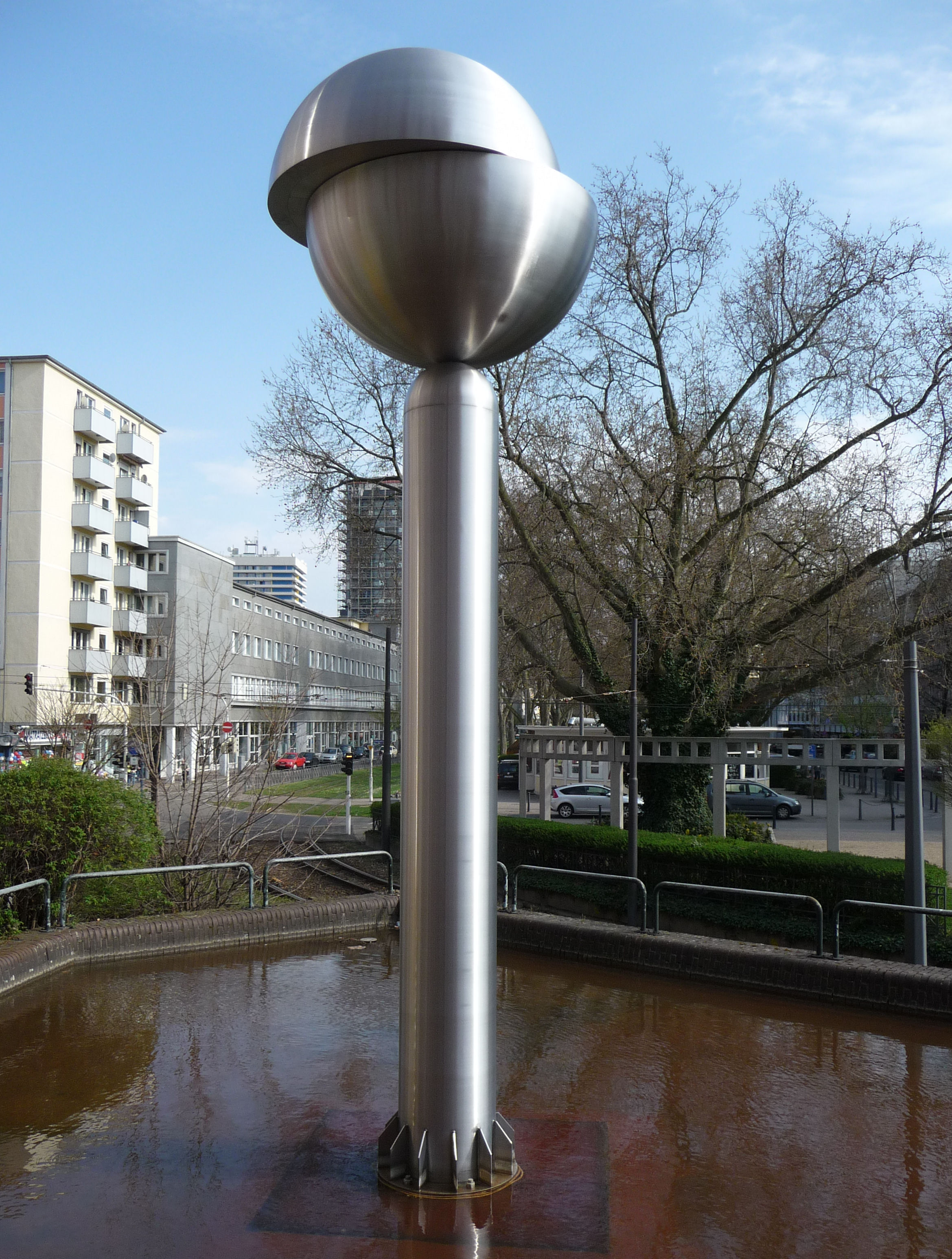 Sculpture in Ludwigshafen, Germany